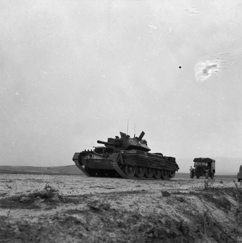 The British Army in Tunisia 1943 Crusader III tank of the 17/21st Lancers, 26th Armoured Brigade, 6th Armoured Division, on a road near Bou Arada, 13 January 1943.